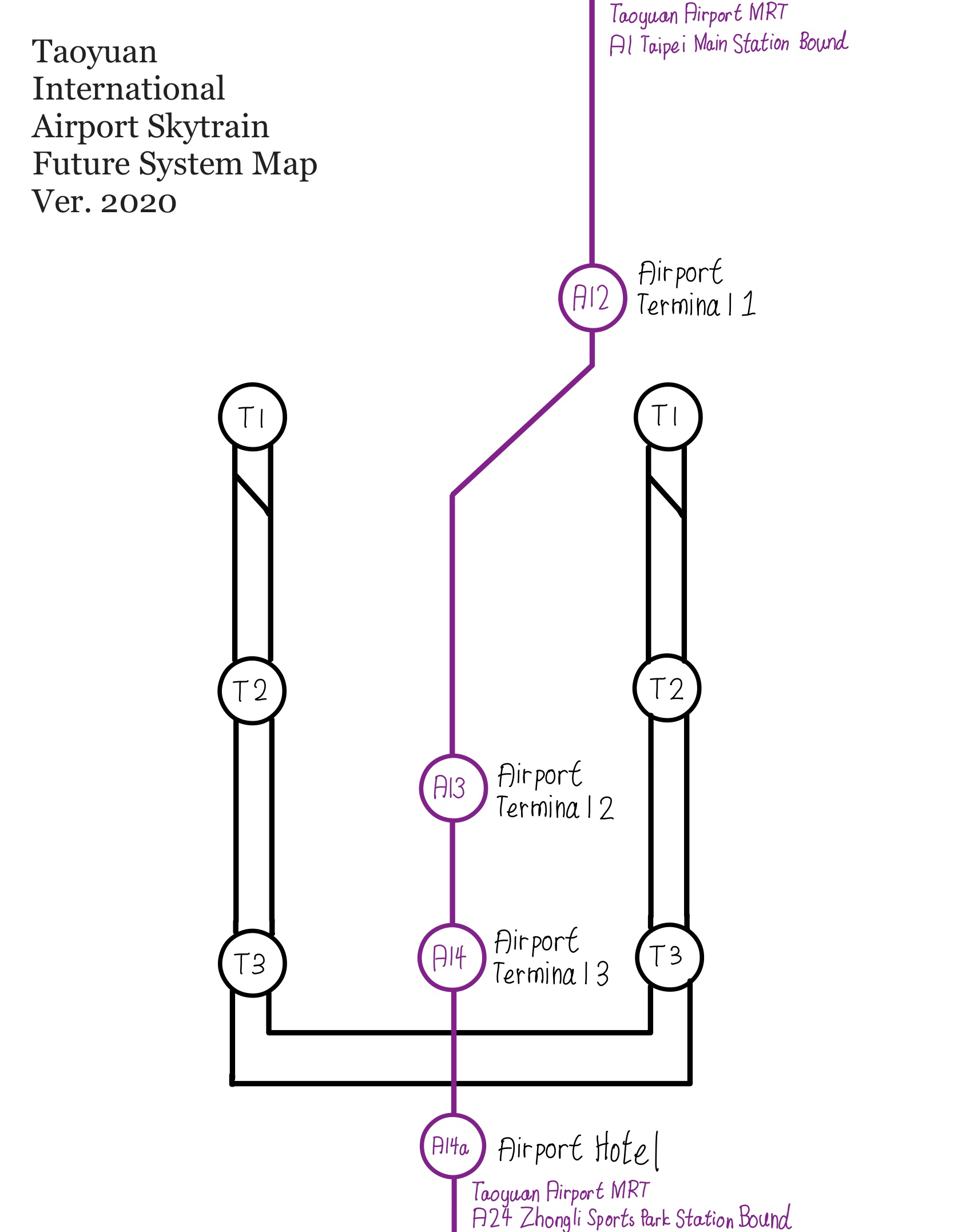 Taoyuan International Airport Skytrain Future System Map Ver. 2020